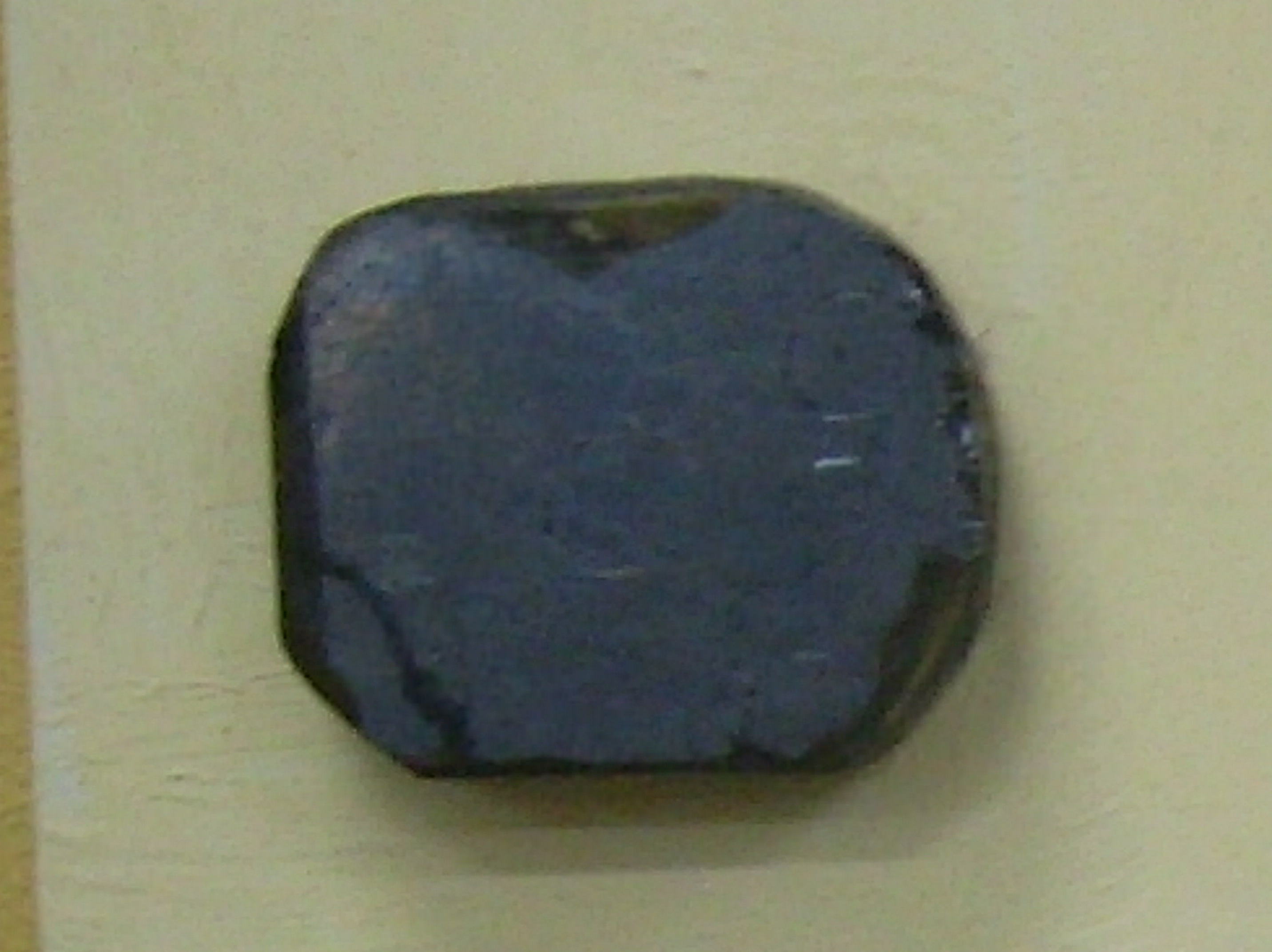 Ardaite in Galenite, Madjarovo ore deposit